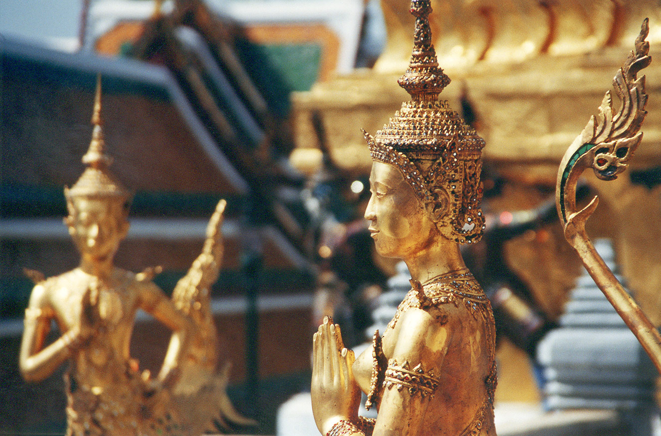 Gilded statues of mythological beings of the Himpahan-Forest at the Wat Phra Kaew in Bangkok (Thailand). In the foreground an Apsornsi, half woman, half lion. In the background a Kinnorn, half man, half bird.